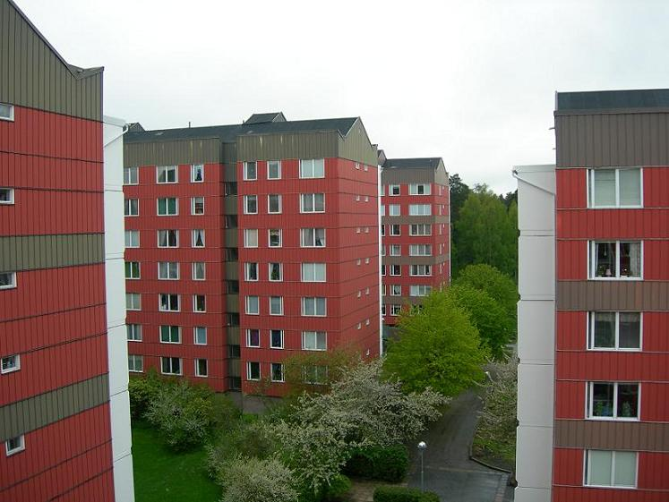 Upplands Väsby, outside Stockholm, Sweden.